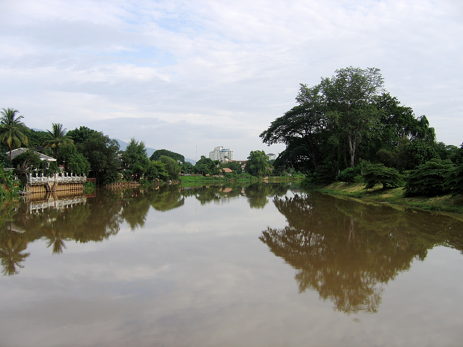 Ping River, Chiang Mai Province, Thailand